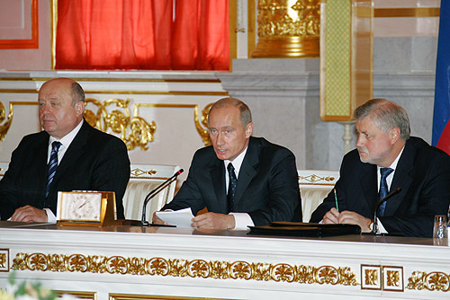 September 5, 2005 THE GRAND KREMLIN PALACE, MOSCOW. At a meeting with the Cabinet members, the heads of the Federal Assembly, and the State Council Presidium members. With Prime Minister Mikhail Fradkov and Head of the Federation Council Sergei Mironov.